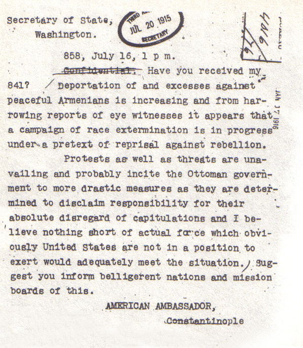 This is an official telegram sent by Henry Morgenthau Sr. on July 16, 1915 to what he describes a process of "race extermination" in regards to what was happening to the Armenians at that time. Morgenthau served as the United States ambassador to the Ottoman Empire from 1913-1916 and so this work comes from the United States State Dept.